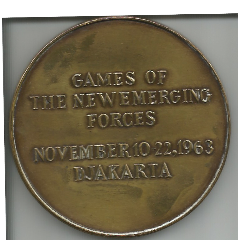 Ganefo Bronze medal for Argentinian Water Polo Team. Donated by Héctor Ernesto Urabayen